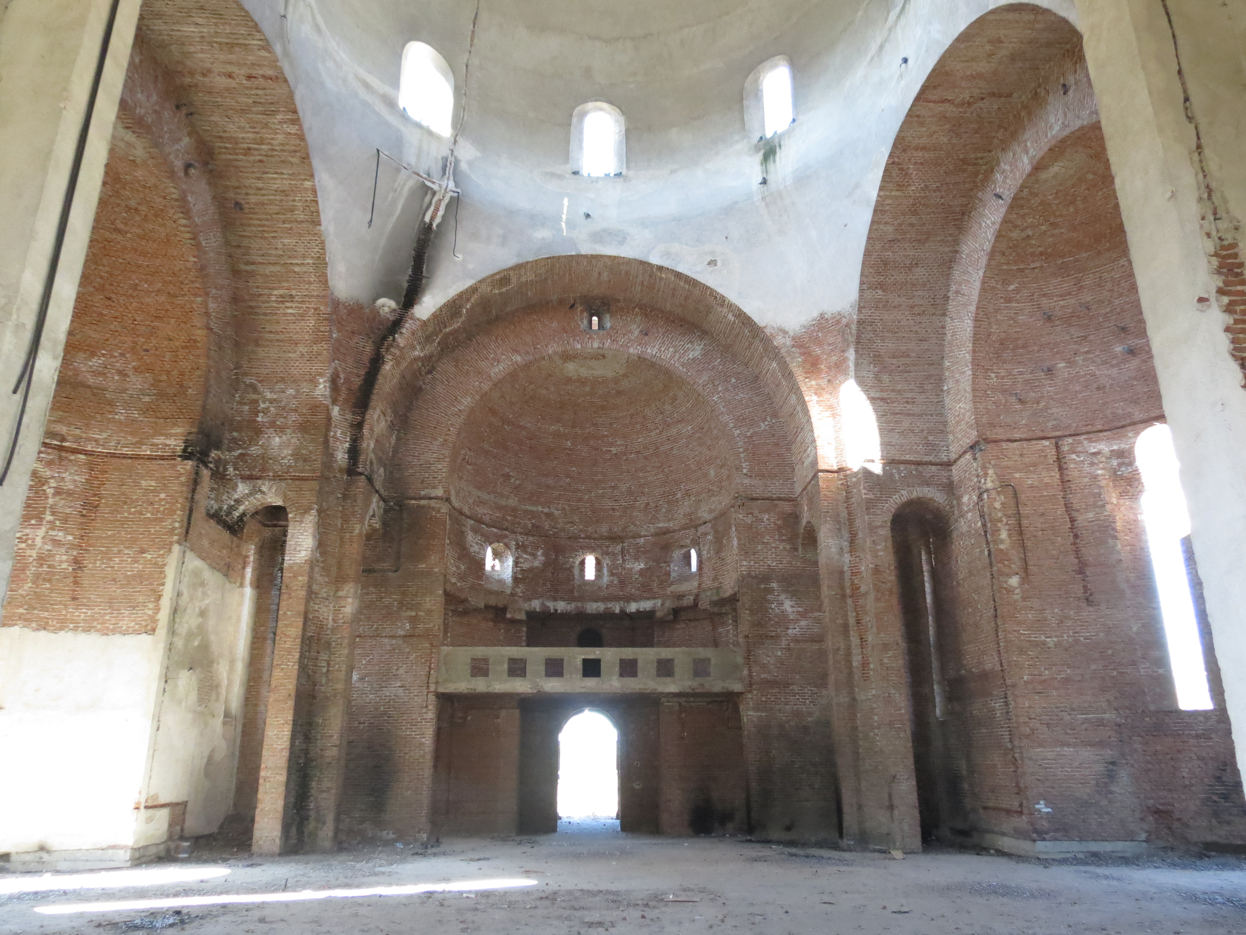 Inside view of the unfinished Serbian Ortodox "Christ the Savior" Cathedral in Pristina, Kosovo.